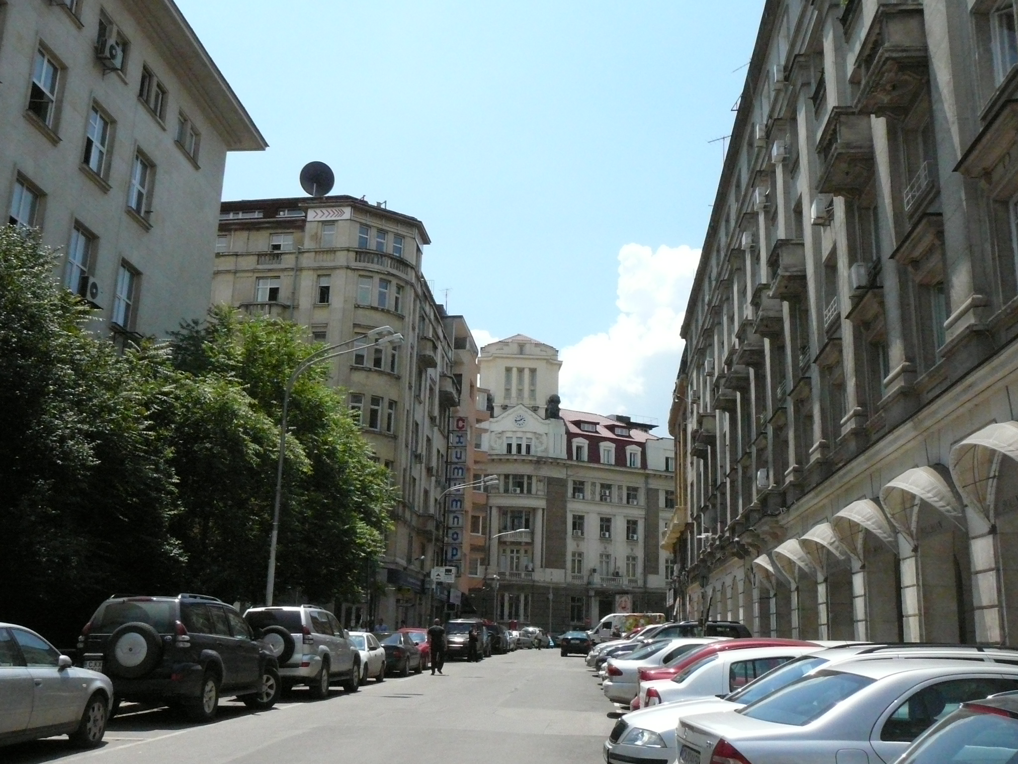 Knyaz Alexander I Street, Sofia